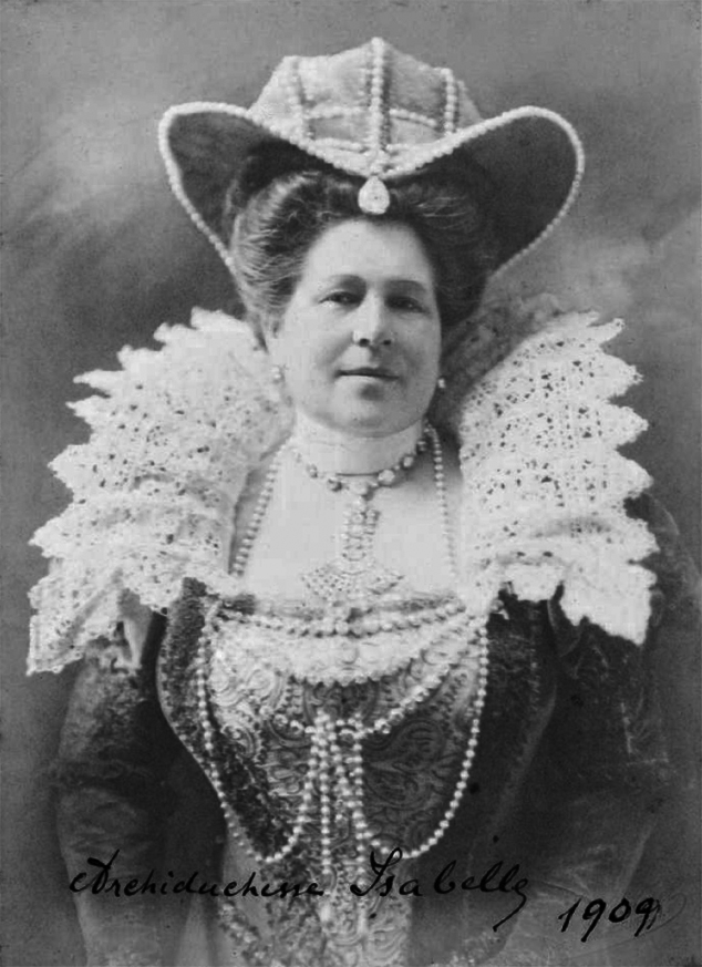 Archduchesse Isabelle